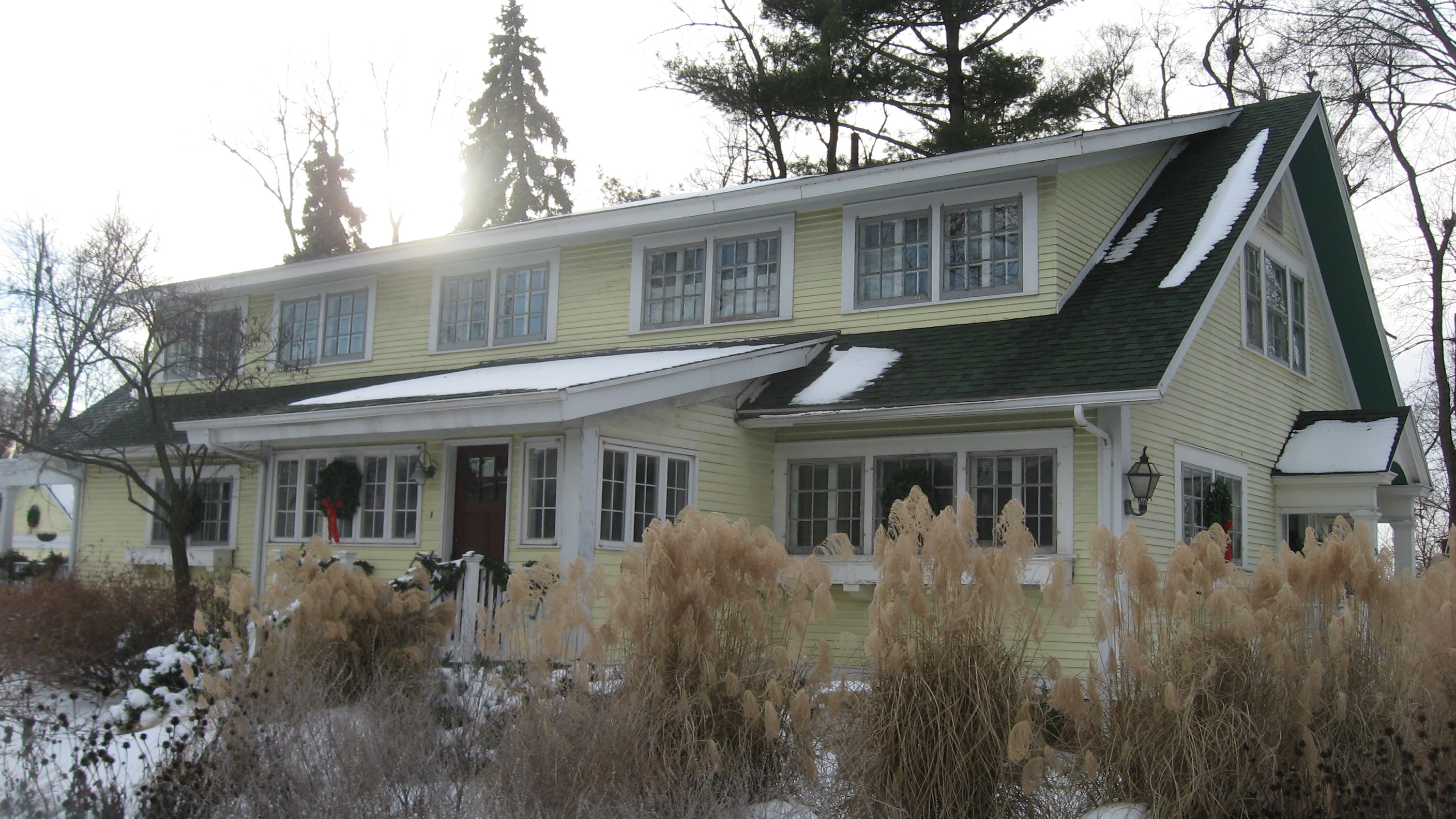 Eastern side and front of the Ninde-Mead-Farnsworth House, located at 734 E. State Boulevard in Fort Wayne, Indiana, United States. Built in 1910 and long the home of television pioneer Philo T. Farnsworth, it is listed on the National Register of Historic Places.